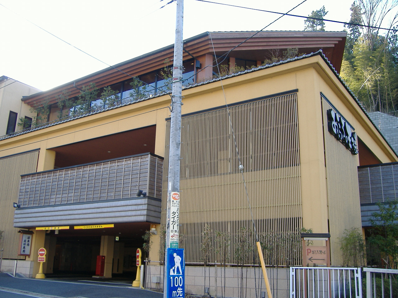 Sentō "Ofuro-no-Ousama" (Yokohama, Japan)